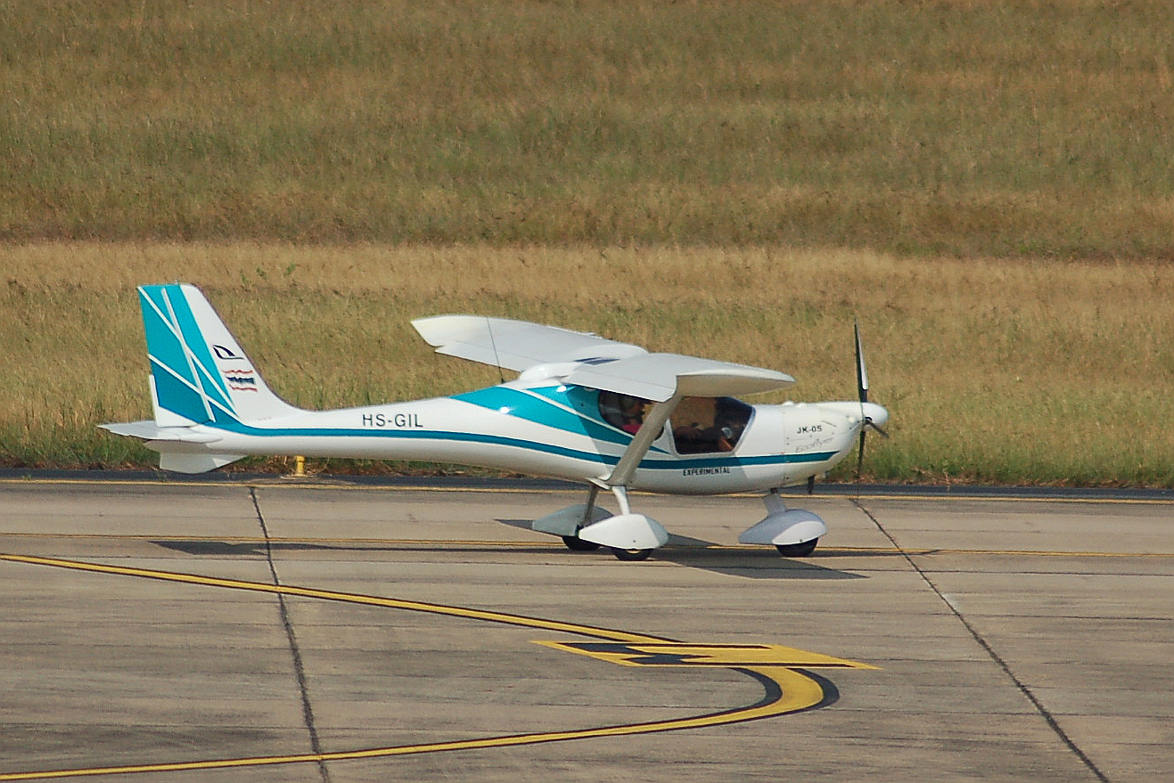 Ekolot JK-05 Junior at Khon Kaen,Thailand.08/12/12.